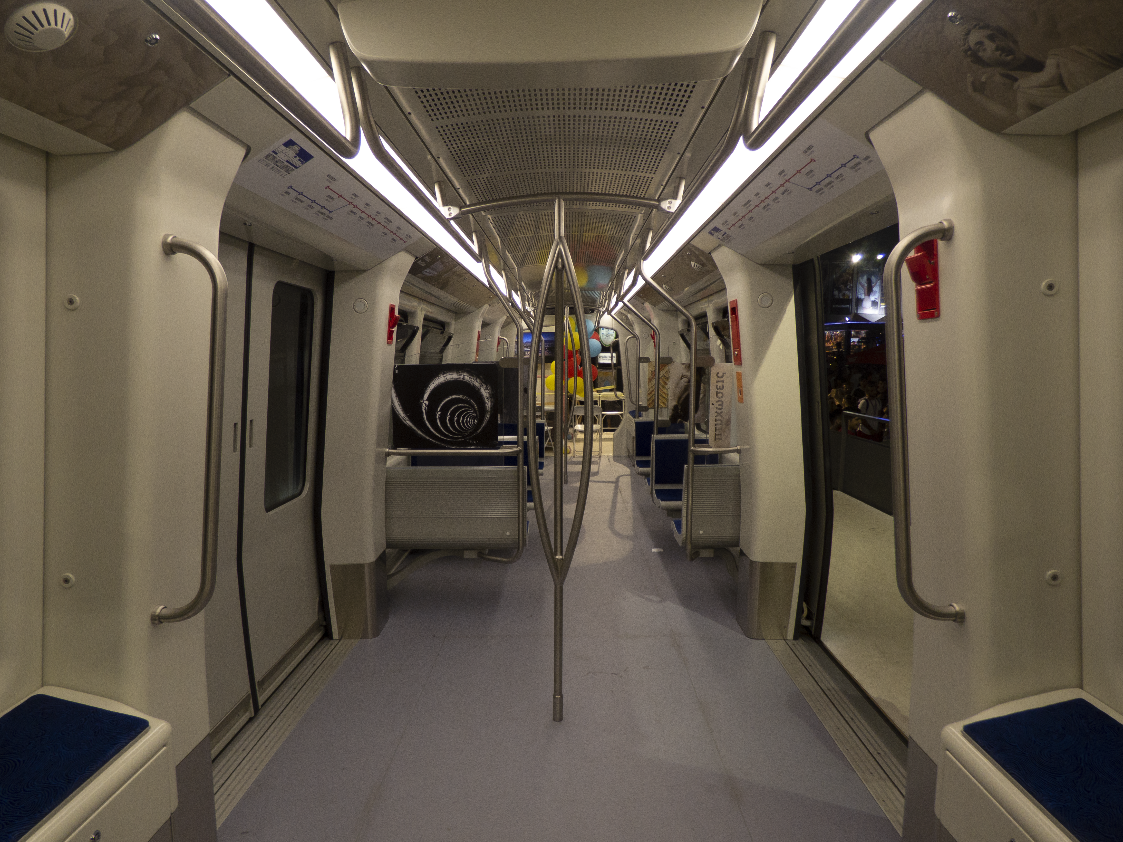 The interior of a Thessaloniki Metro AnsaldoBreda Driverless Metro on display by Attiko Metro at the 83rd Thessaloniki International Fair.